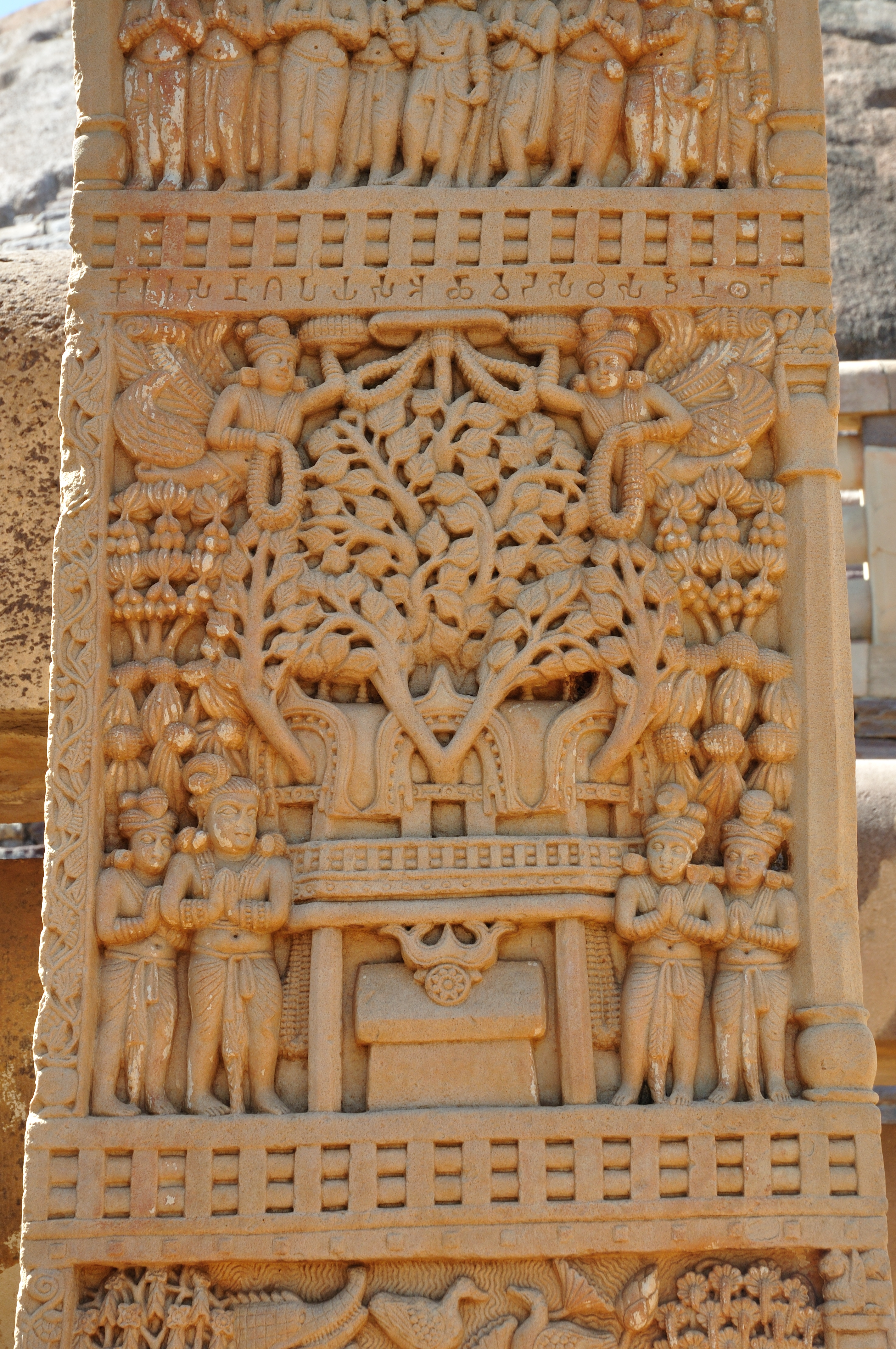 Photoraphed at the Sanchi Hill, Raisen district of the state of Madhya Pradesh, India.